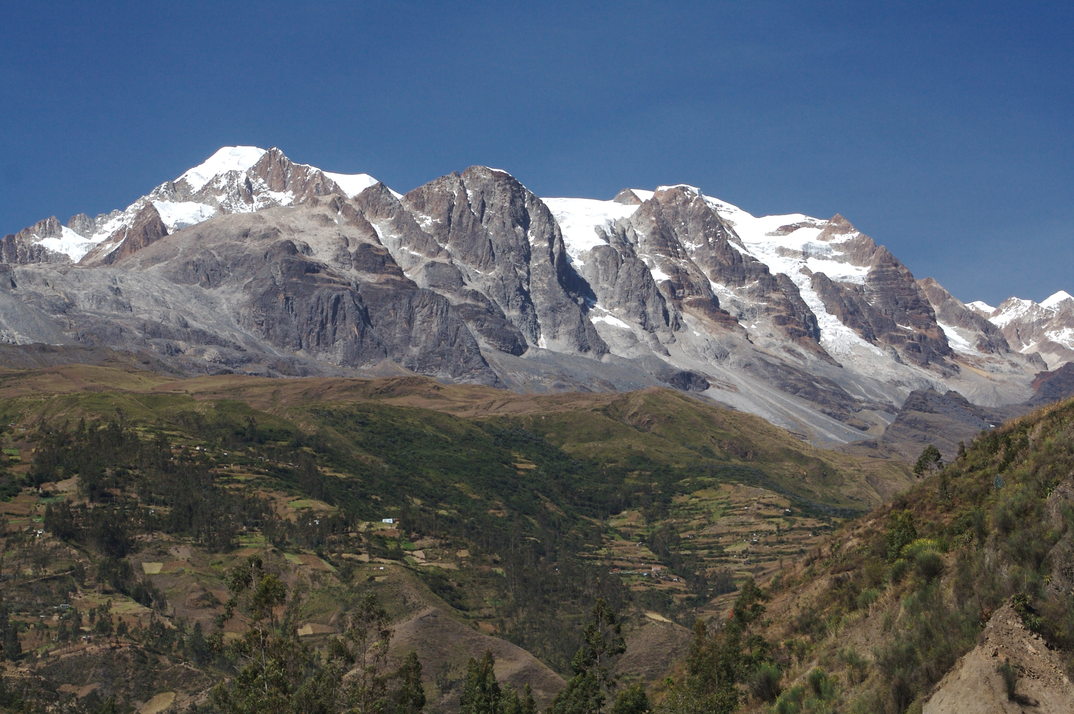 This is a clear and majestic view of Mount Illampú that was taken on a sunny day in the spring of 2007. This large mountain enjoys the distinction of being the fourth highest mountain of Bolivia within the Andes region of this country and is located just east of Lake Titicaca.